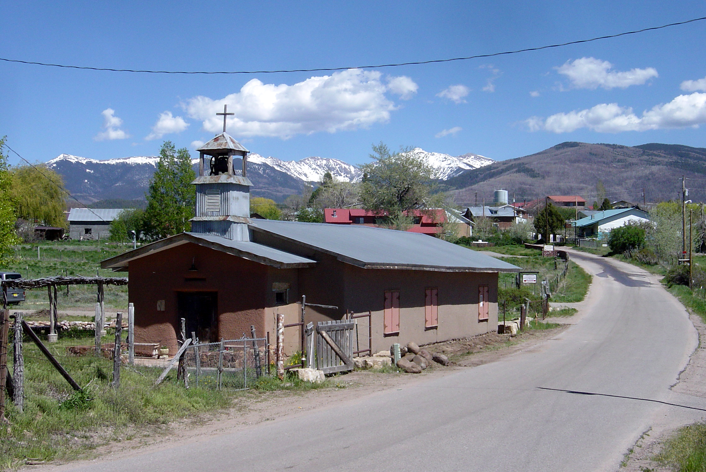 Church in Truchas, NM